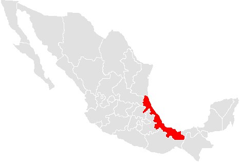 A map of the Mexican state of veracruz made by me